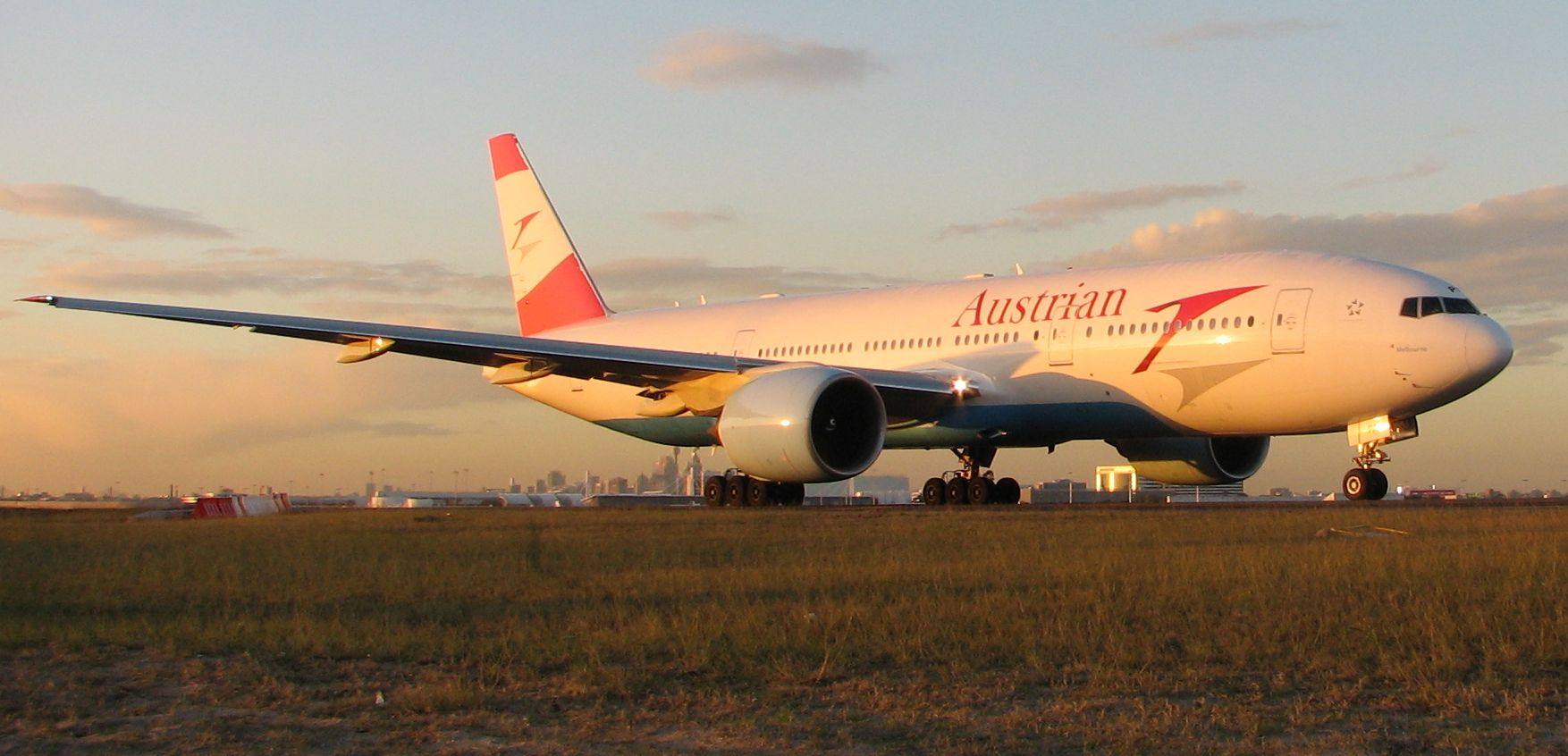 Austrian Boeing 777-200ER at Kingsford Smith International Airport, Sydney, Australia